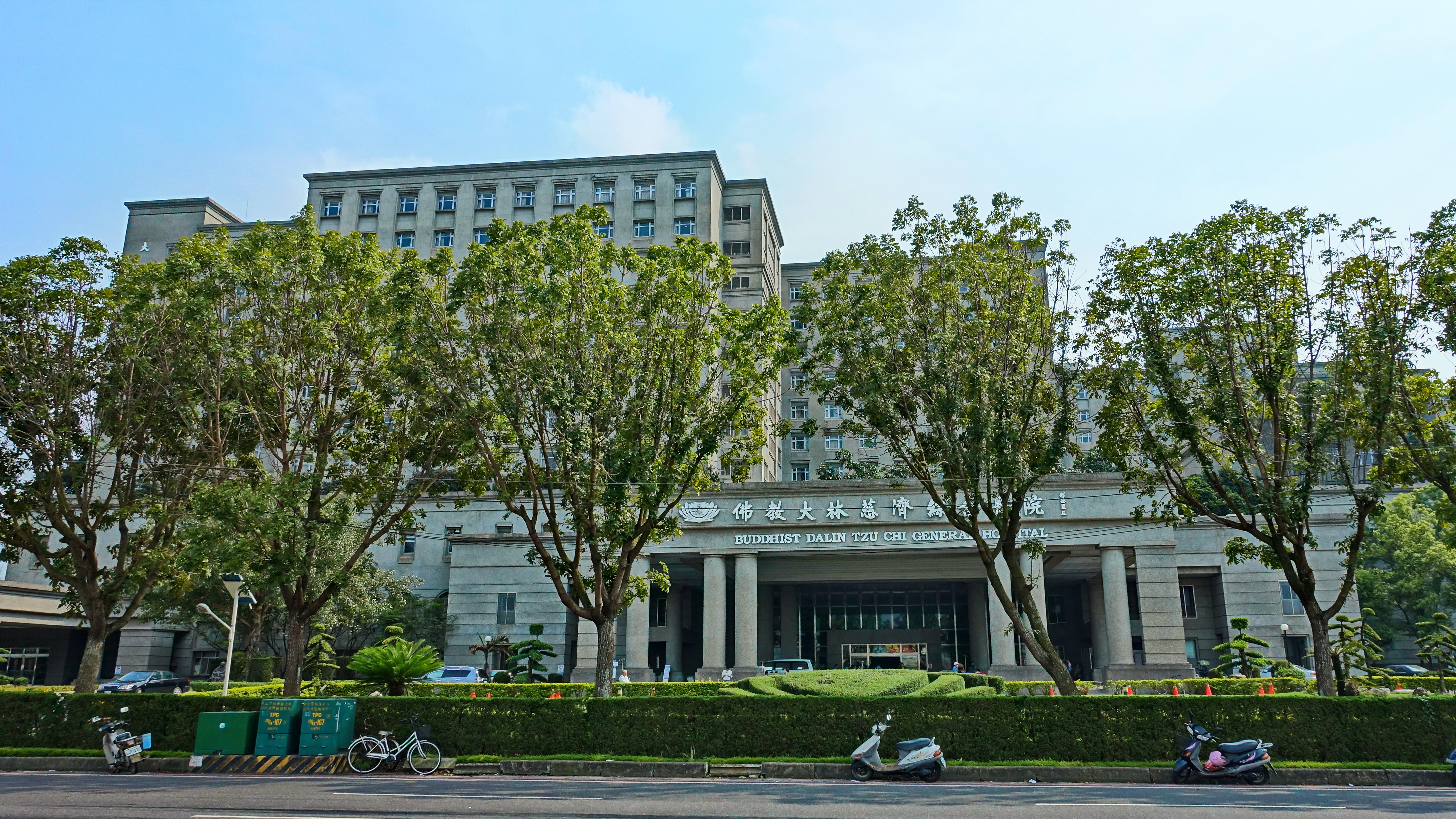 Dalin Tzu Chi Hospital, Buddhist Tzu Chi Medical Foundation, Taiwan.